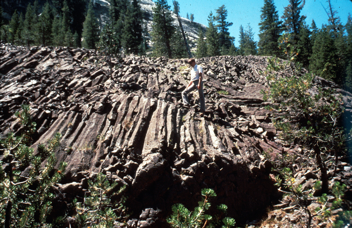 Yosemite National Park, California. Columnar joints in a basalt plug, a remnant of a volcanic conduit at "Little Devils Postpile" adjacent to the Tuolumne River west of Tuolumne Meadows. Figure 32, U.S. Geological Survey Bulletin 1595 - The geologic story of Yosemite National Park by N. King Huber, 1987.